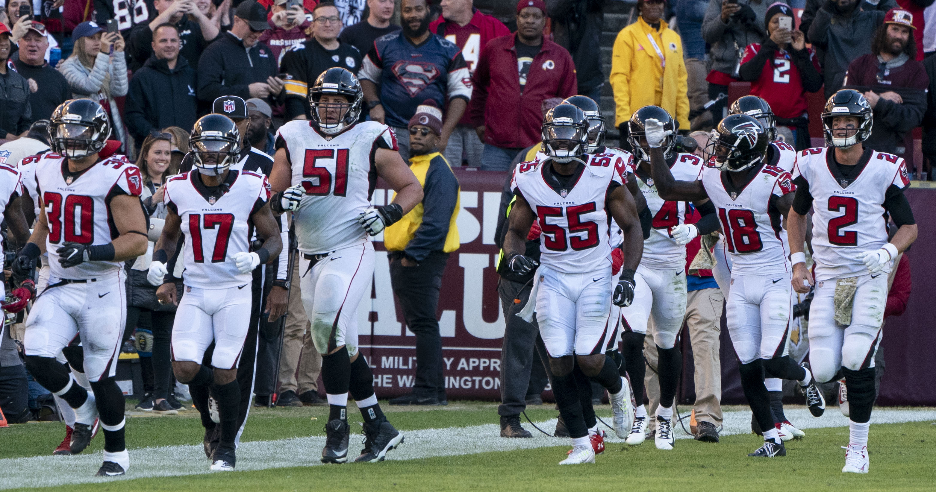 Members of the Atlanta Falcons on the field at FedExField in November of 2018